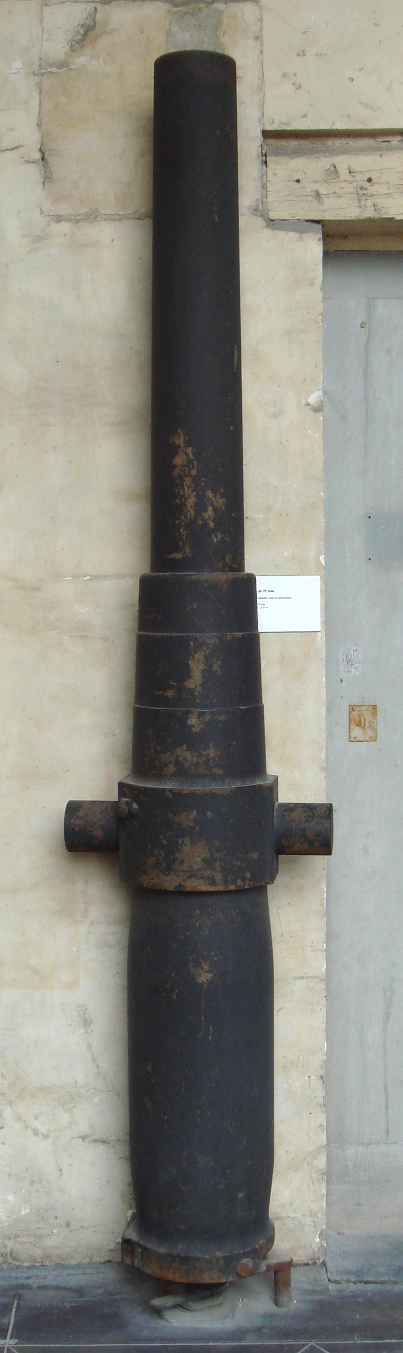 Canon_Lahitolle_95mm